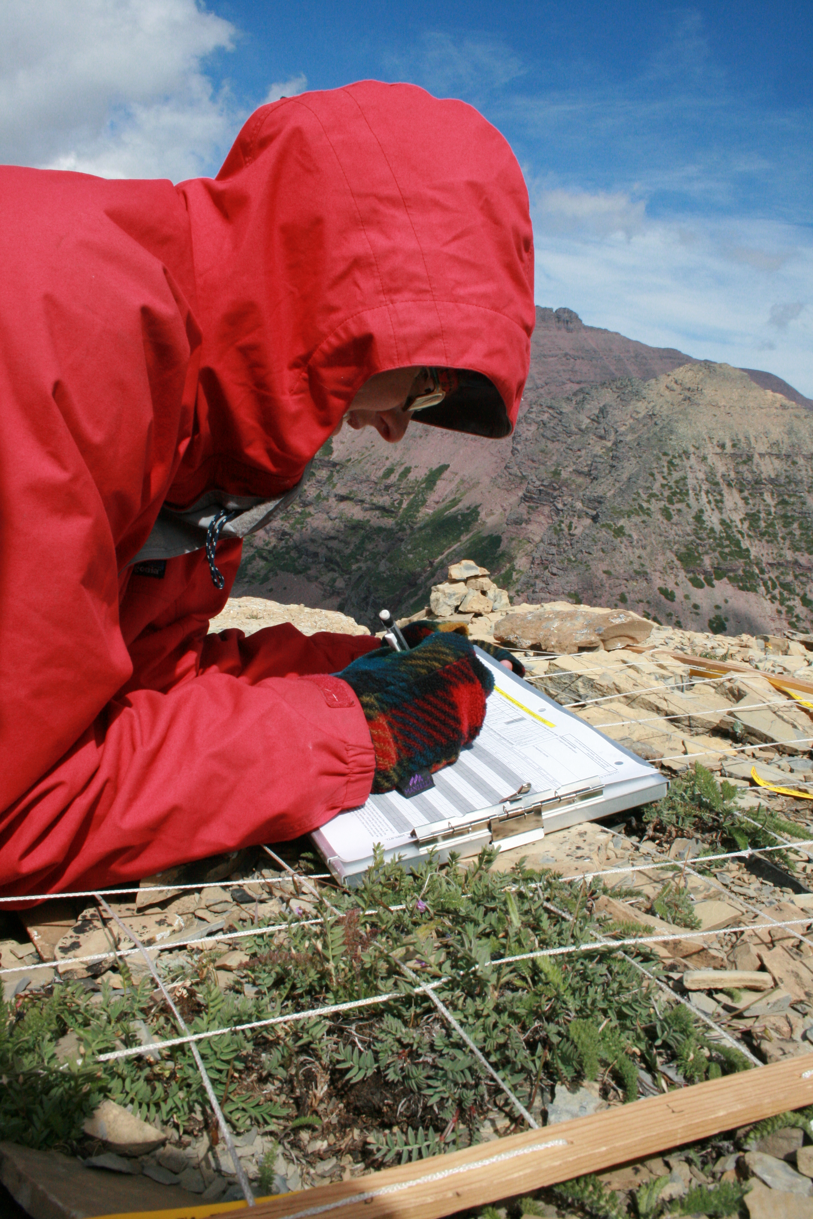 Recording field observations from a survey grid on Pitamakan Peak in the Two Medicine region of Glacier National Park (U.S.) for the Global Observation Research Initiative in Alpine Environments (GLORIA) project. GLORIA surveys are conducted in the same locations every four years to study changes in vegetation patterns on conical mountaintops all over the world. Photographs are used to verify that each plot is set up in the precise location of previous surveys.